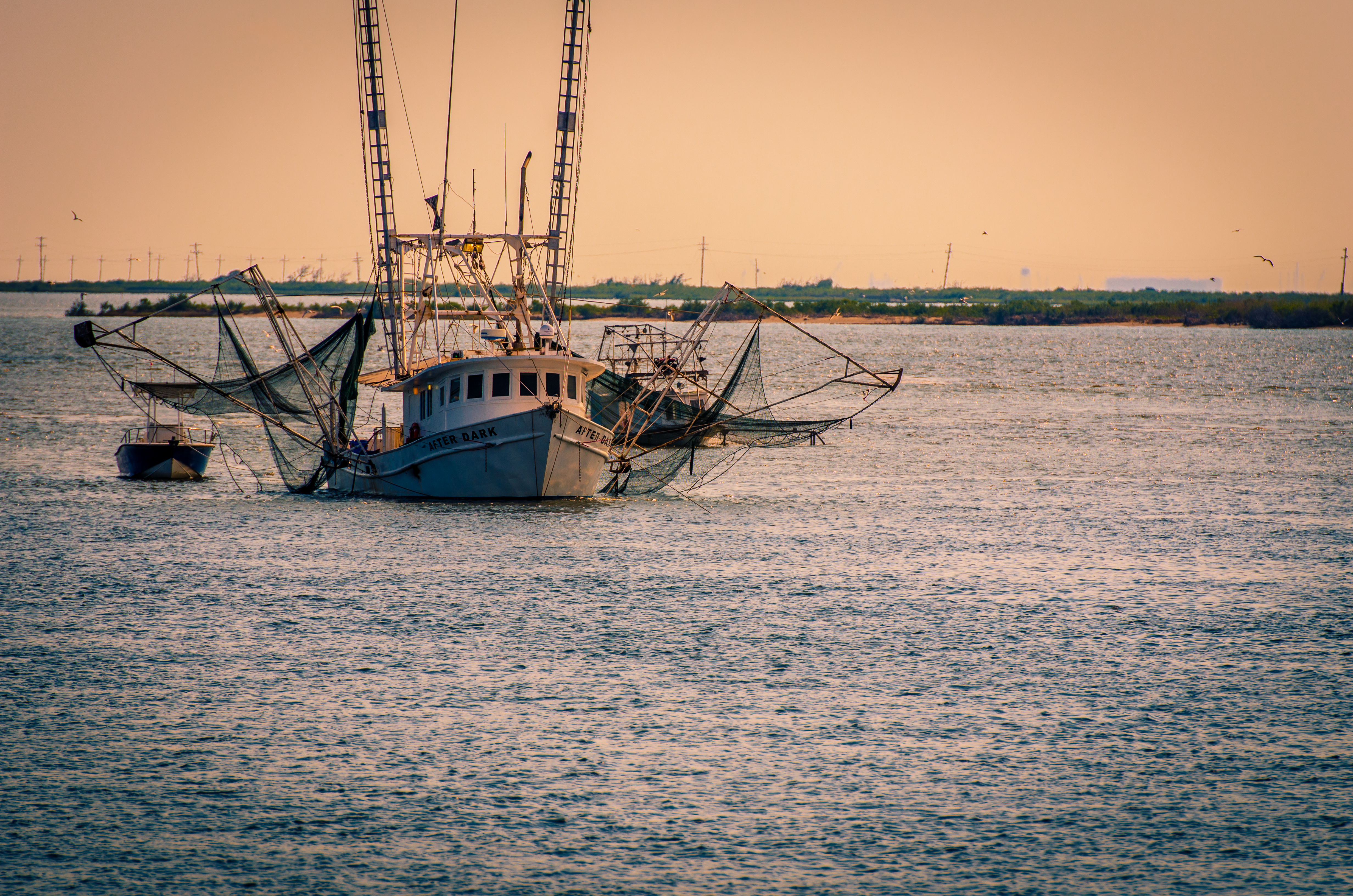 Fishing boat off Grand Isle, Louisiana